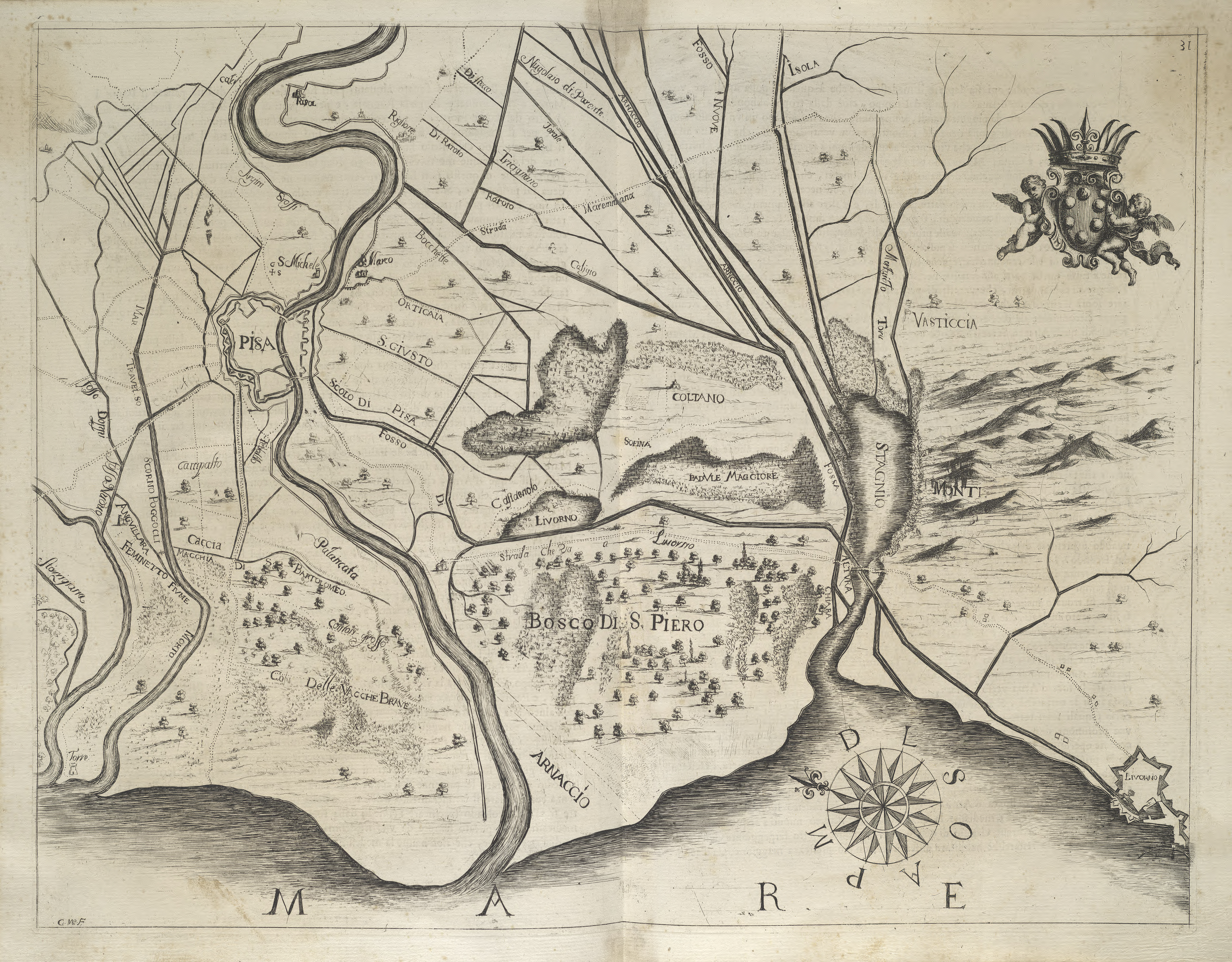 Map of Pisa and the mouth of the Arno. A map view of Pisa and surrounding campagna that detaiis the flow of the Arno to the sea. The Grand-ducal coat of arms of the Medici, carried by angels, hovers at the right.